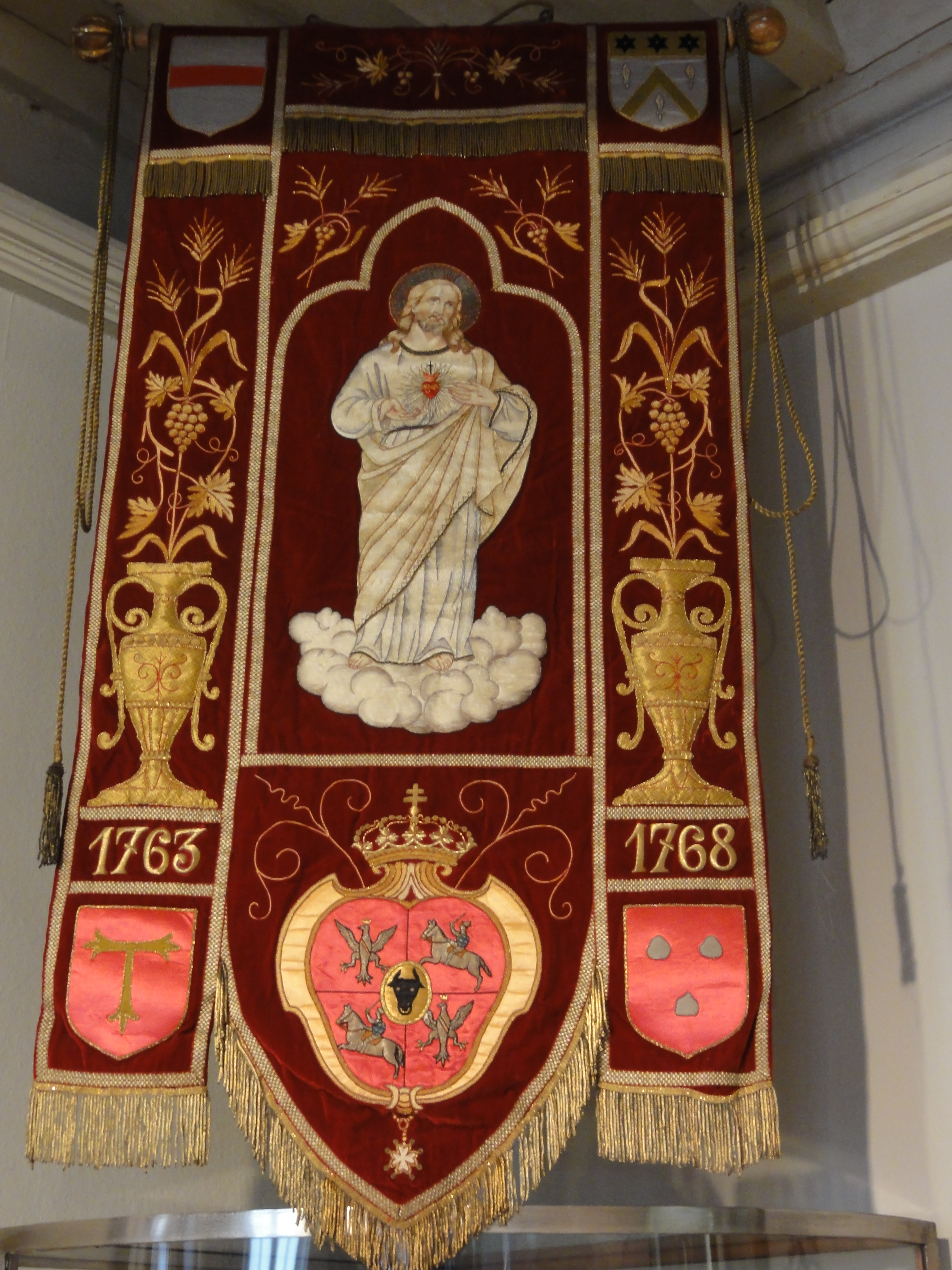 Toul (Meurthe-et-Moselle) Musée d'Art et d'Histoire, bannière de procession